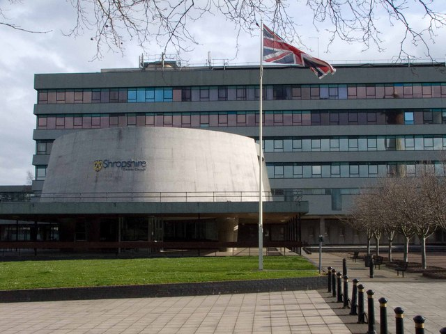 Council Chamber, Shire Hall, Shrewsbury The circular concrete building in front of the office block is the council chamber. Note that since Shropshire became a unitary authority in 2009 it is no longer Shropshire County Council, but simply Shropshire Council. Members sit here in semi-circular rows.